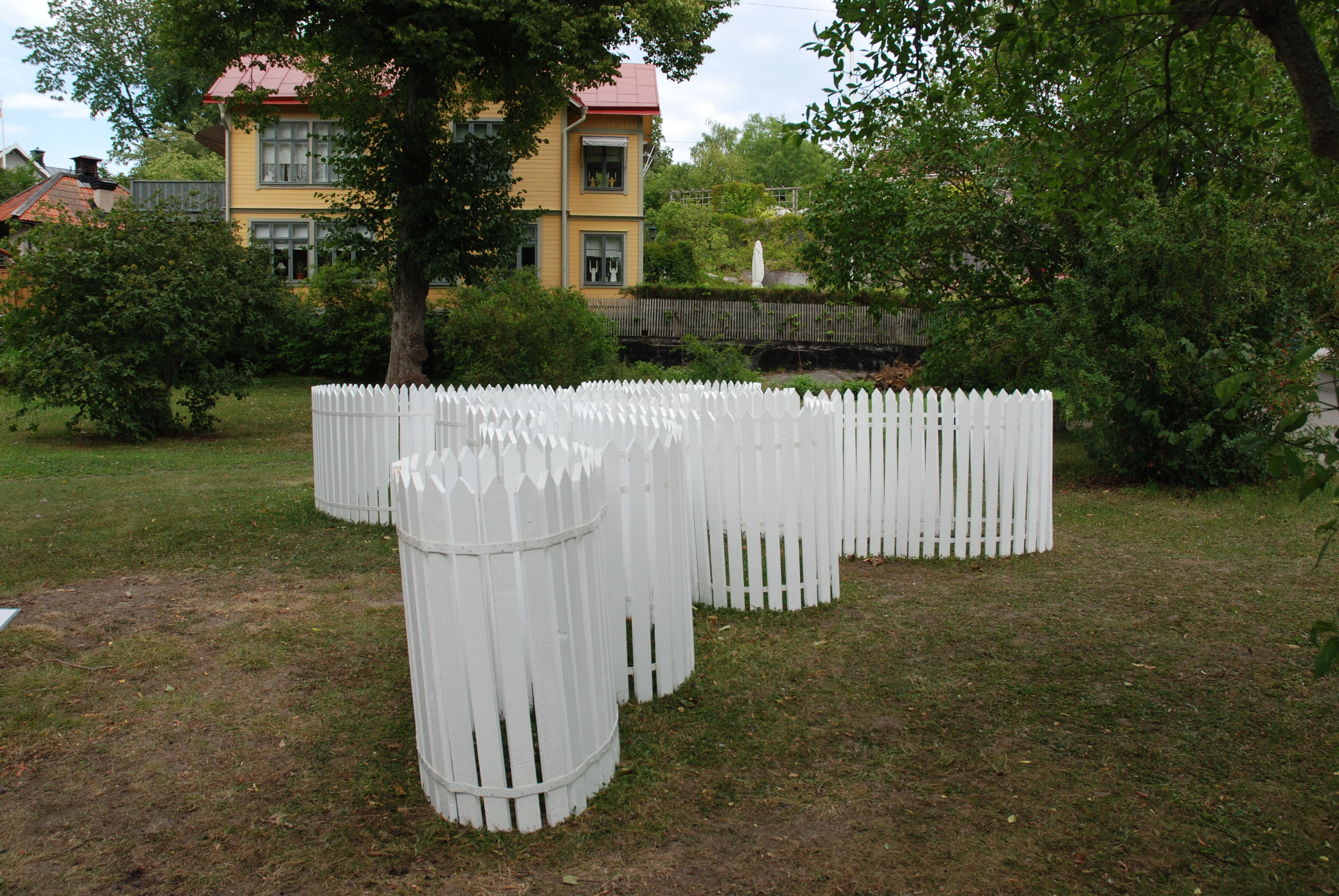 Katarina Klingspor Ekelund´s Random Space, Ekuddsparken in Vaxholm